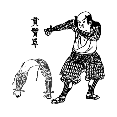 A Japanese Edo period wood block print of a samurai putting on kote.